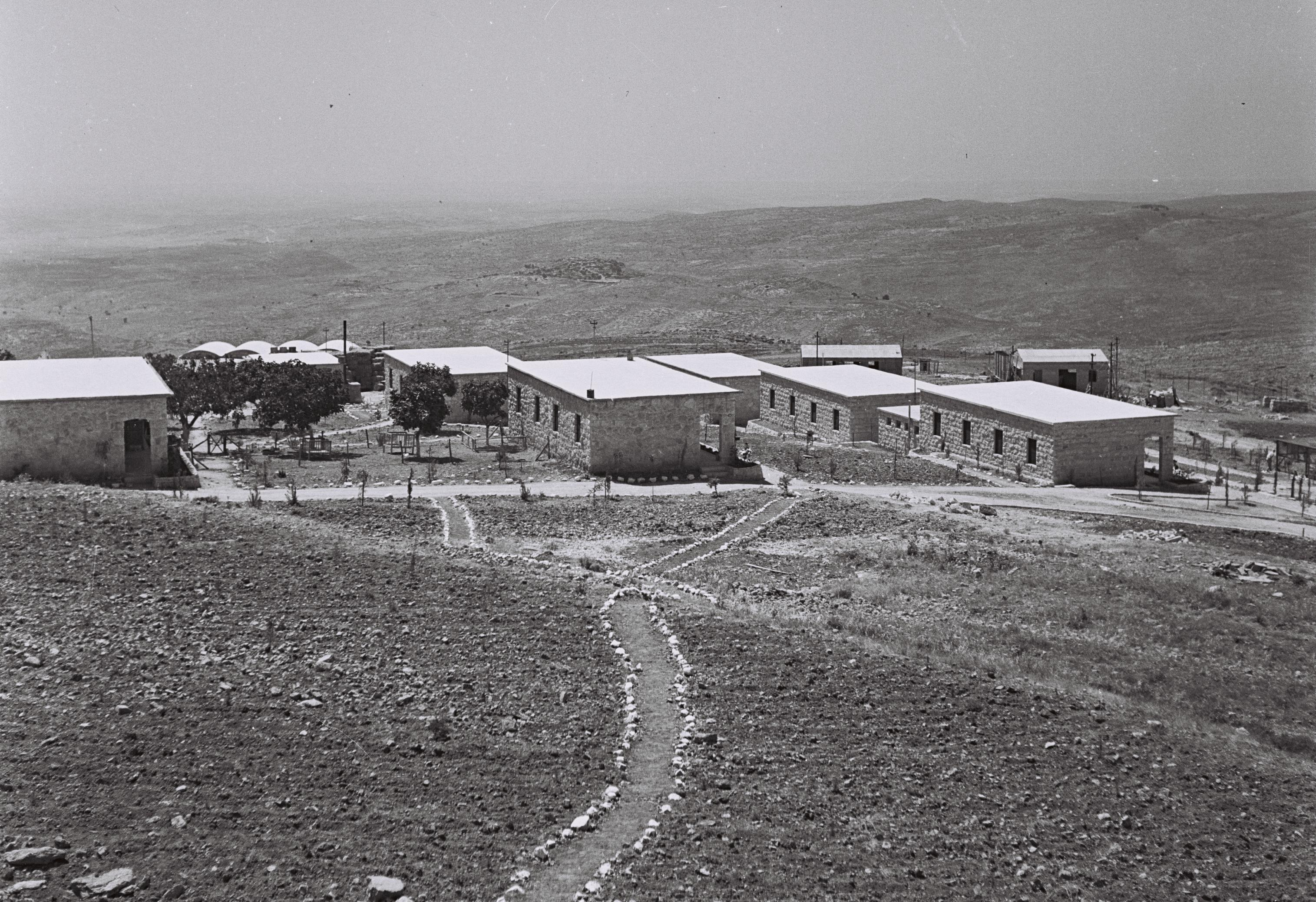 A view on Kibbutz Masu'ot Yitzhak in Gush Etzion